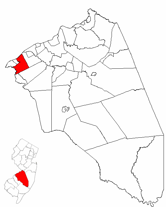 Map of Burlington County highlighting Cinnaminson Township